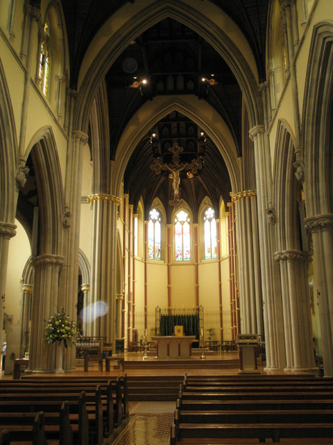 The magnificent interior of Portsmouth Roman Catholic Cathedral